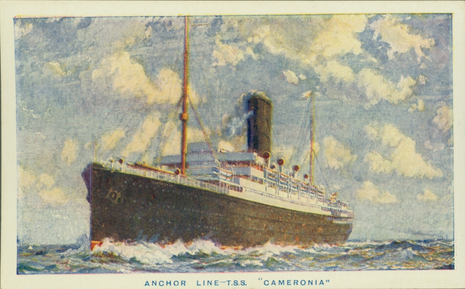 A postcard of the ocean liner Cameronia.